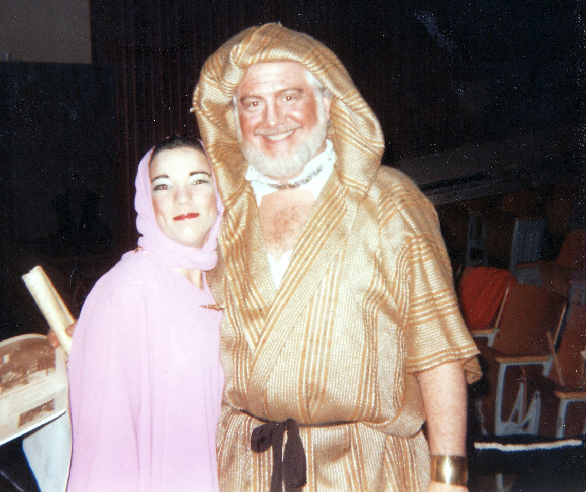 Author:Robert E. Nylund Source:Personal Photos